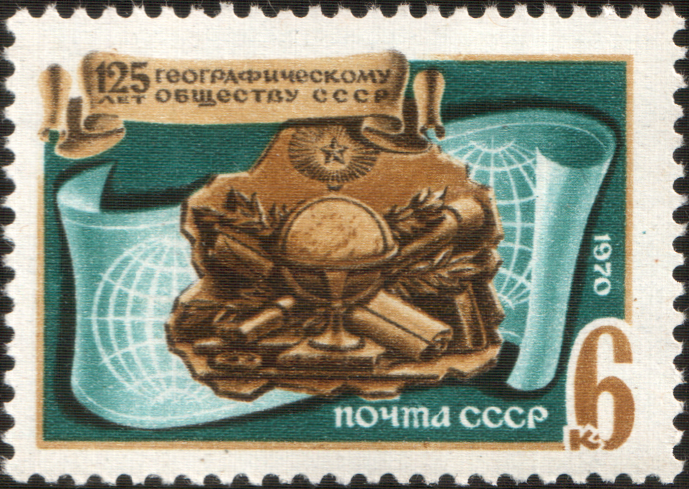 USSR stamp: Geographical Society Emblem and Hemispheres of the Earth. Series: 125th Anniversary of Russian Geographical Society (Founded 1845.08.18)